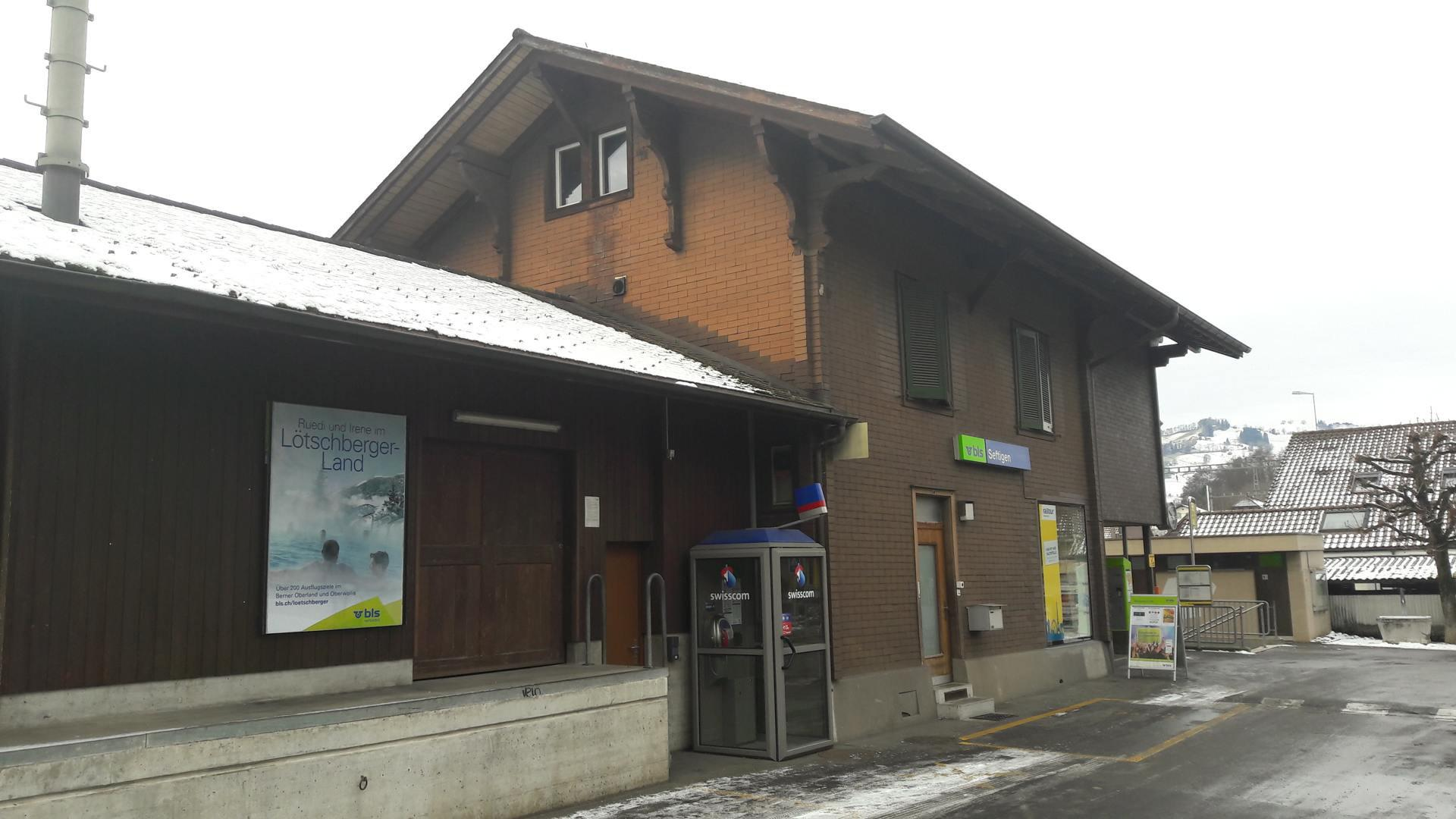 Seftigen railway station in Seftigen, Switzerland.